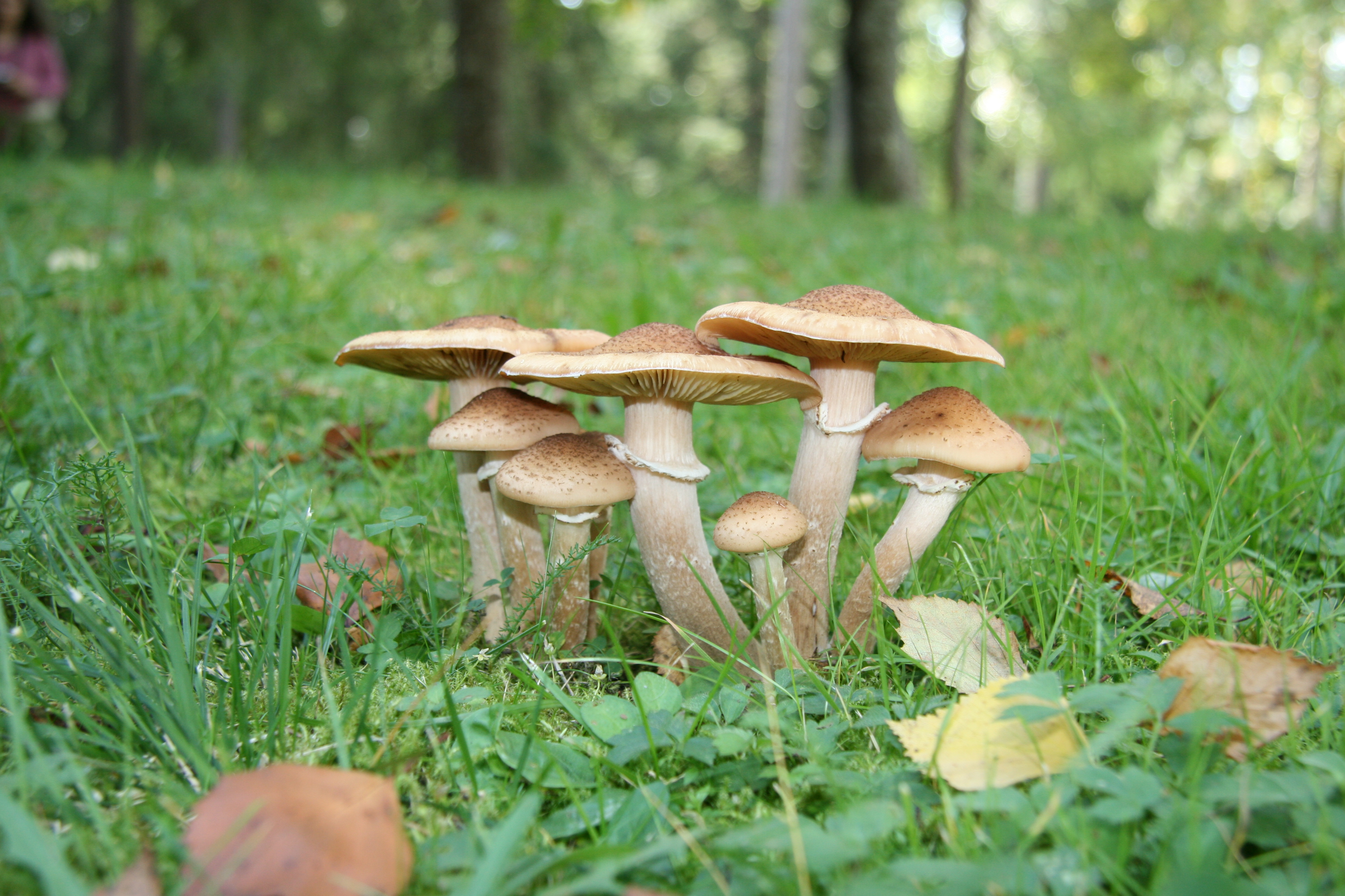 Armillaria mellea, Imatra, Finland